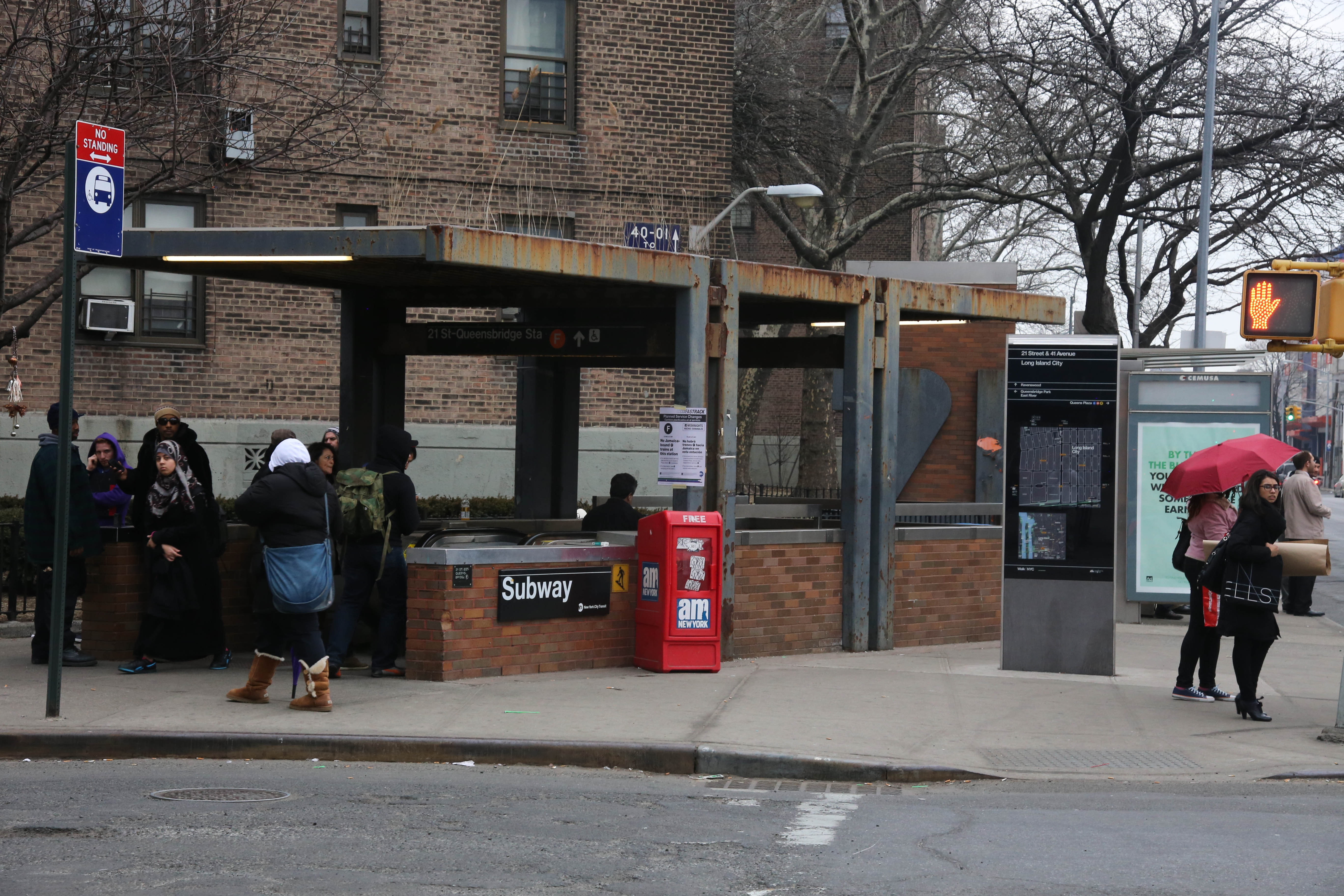 Queensbridge Station